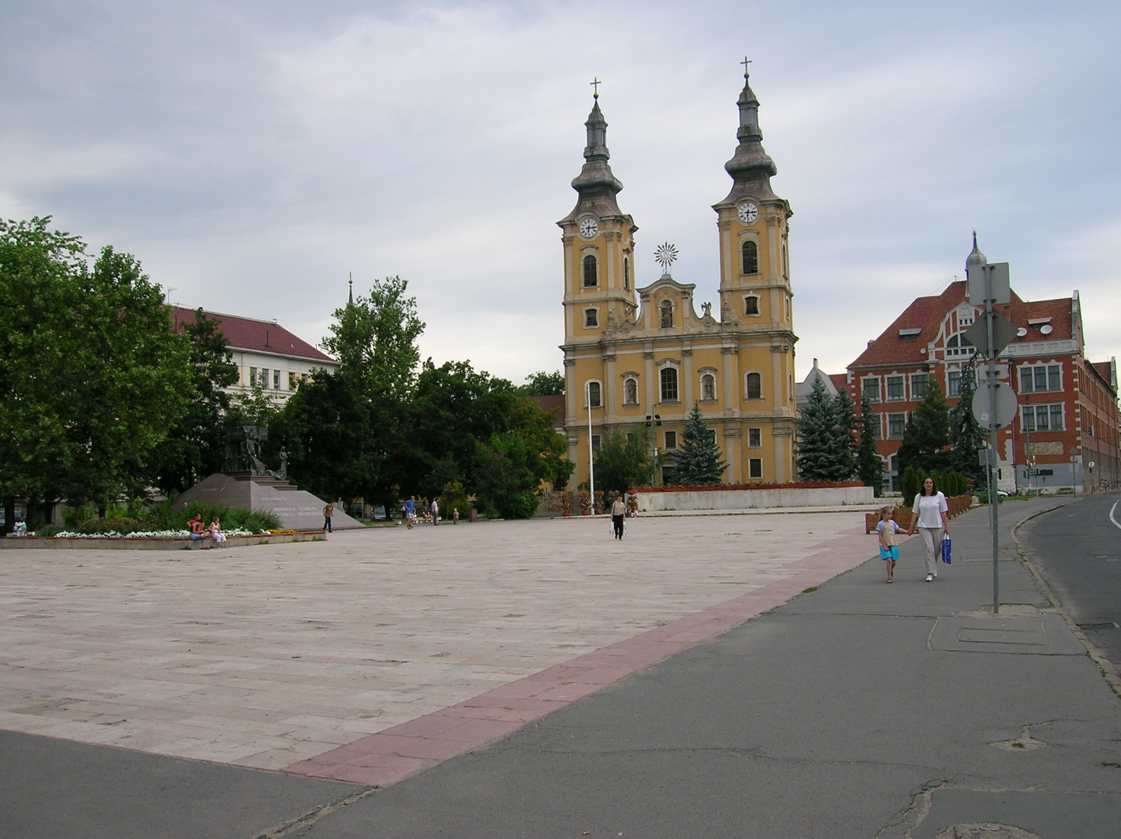 Heroes' Square, Miskolc, Hungary, with Minorite Church, Földes Ferenc High School and a monument of the 1956 Revolution.